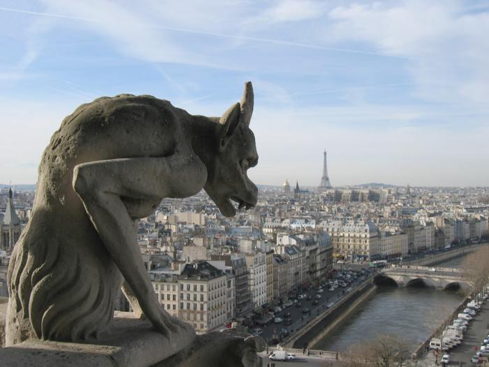 View west over the city of Paris from the Galerie des Chimères of Notre-Dame de Paris. One of the famous grotesque (chimères) of the cathedral can be seen at the left of the photograph. The River Seine is visible at the bottom of the photograph. The nearer bridge is the Petit Pont, and the further is the Pont St Michel. In the distance can be seen the distinctive shape of the Eiffel Tower, to the left of which can be seen the golden dome of the Dôme church, within the Hôtel des Invalides.